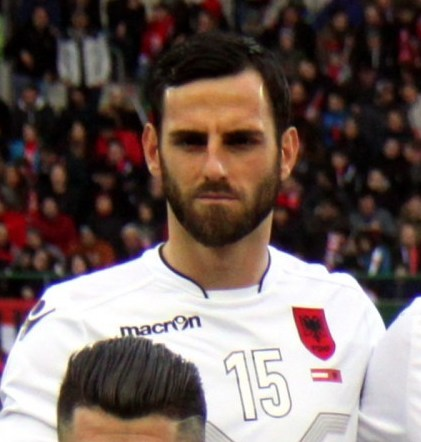 Friendly match – Austria (red shirts) vs. Albania (white shirts) 2–1 (2–0) on 2016-03-26 in Ernst-Happel-Stadion, Vienna – The photo shows the Albanian national football team (from left to right): 1st row: Elseid Hysaj (Napoli), Ergis Kaçe (PAOK Thessaloniki), Amir Abrashi (SC Freiburg), Taulant Xhaka (FC Basel), Ermir Lenjani (FC Nantes); 2nd row: Mergim Mavraj (1. FC Köln), Lorik Cana (Nantes), Bekim Balaj (Rijeka), Etrit Berisha (GK, Lazio), Andi Lila (PAS Giannina) and Ansi Agolli (Qarabağ)